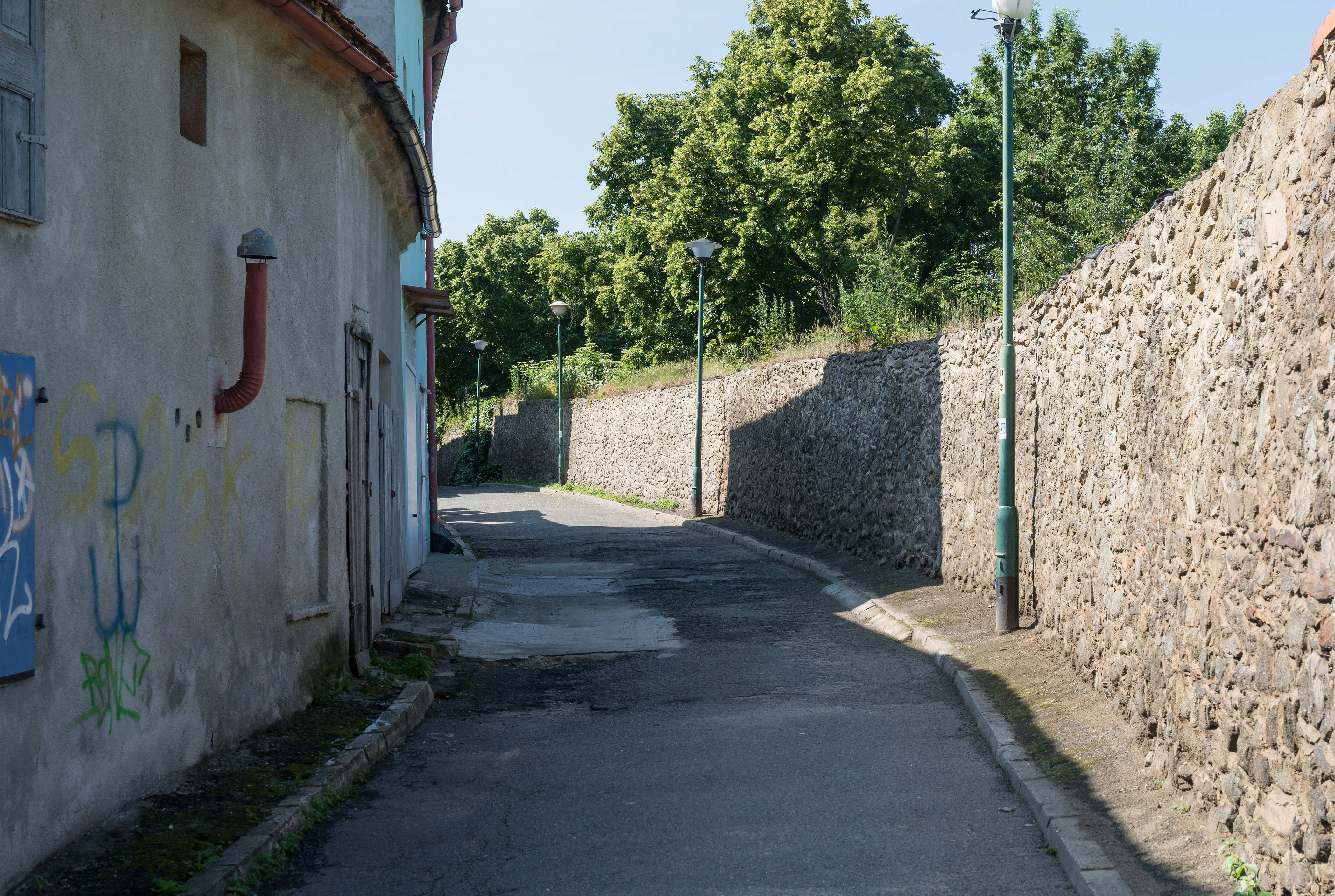 City walls in Niemcza